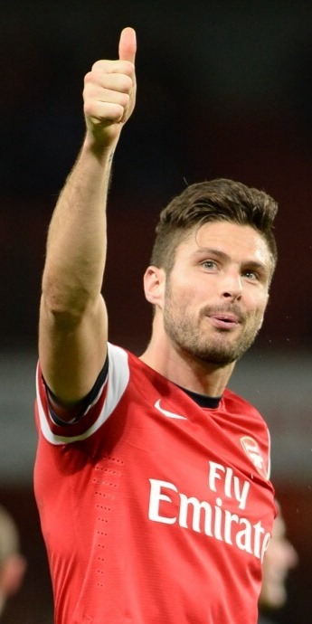 Olivier Giroud gestures to the fans after Arsenal's 2-0 win over Liverpool in the Premier League on 2 November 2013.